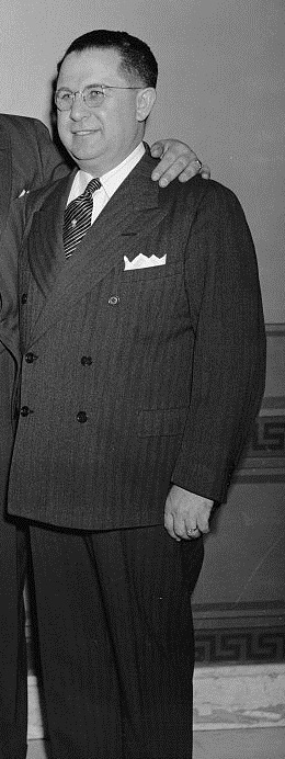 J. Harry McGregor cropped from 1940 photo.